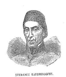 Stefanos Karatheodori